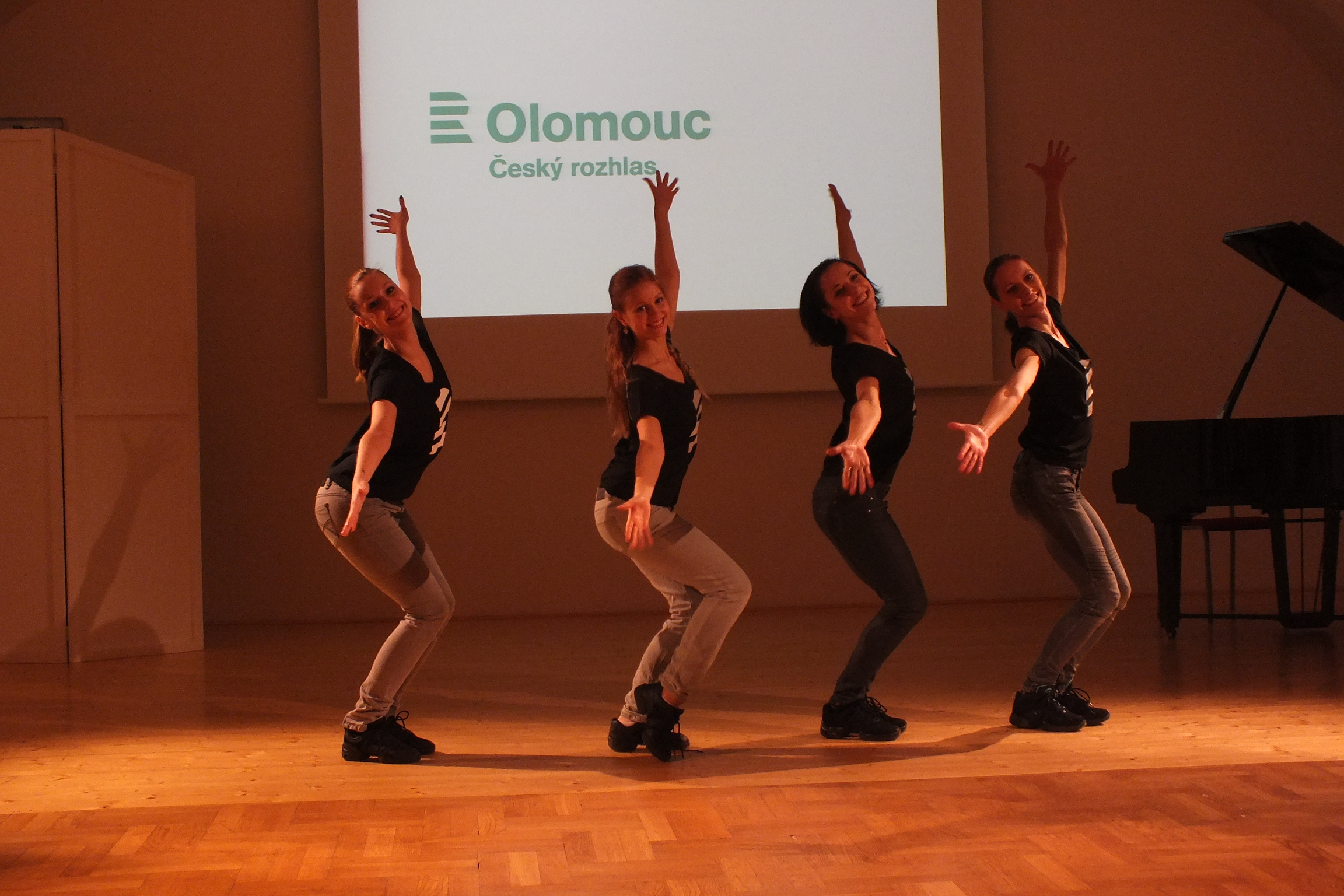 From the vernissage of the exhibition on the history of the Czech Radio Olomouc called Hlásí se Olomouc in the Regional Museum in Olomouc on 8 December 2014.